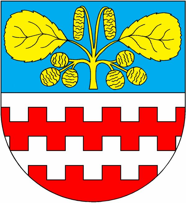 Podůlšany CoA CZ